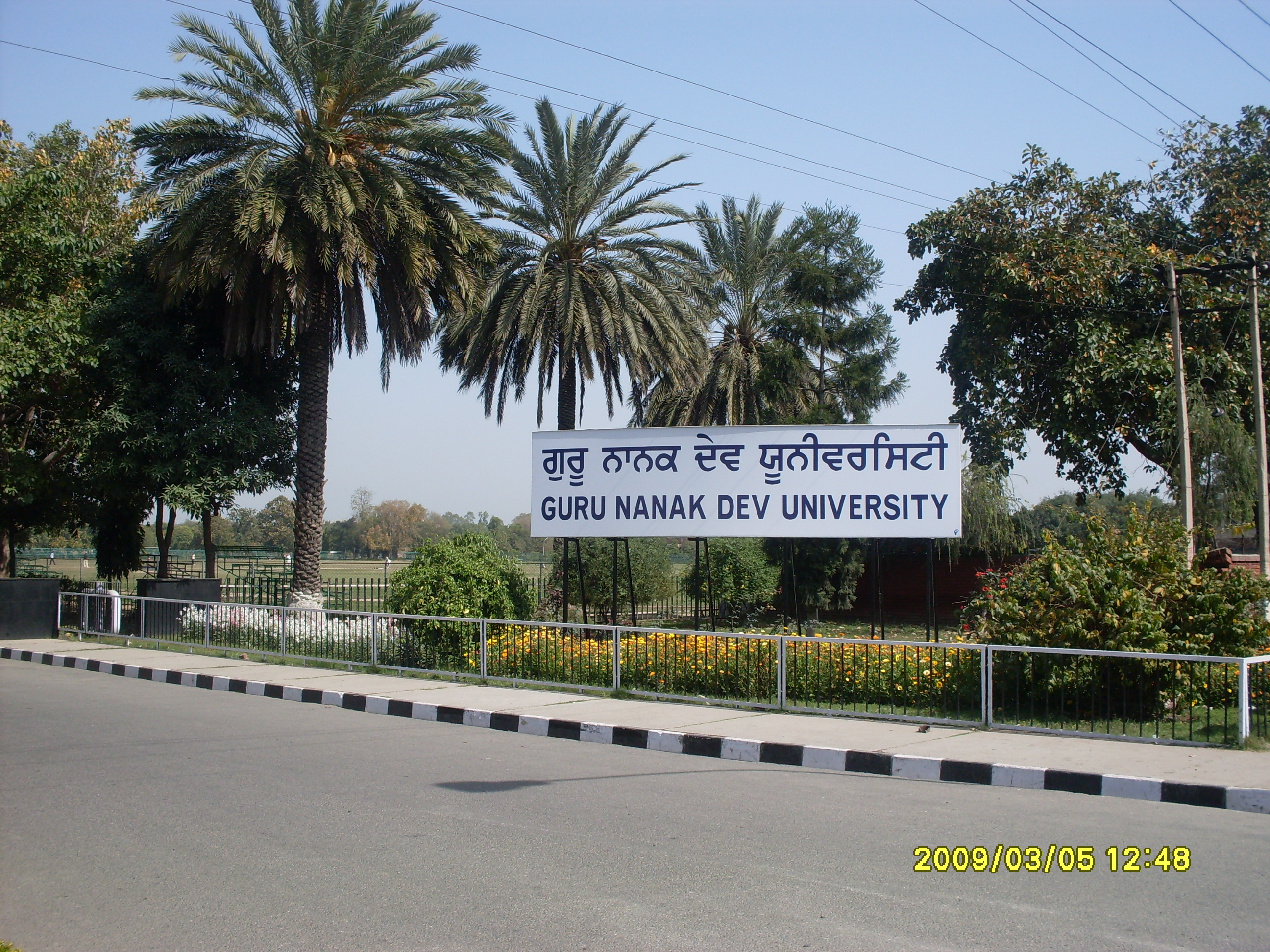 Guru Nanak Dev University, or GNDU, was established at Amritsar, India on November 24, 1969 to commemorate Guru Nanak Dev's birth quincentenary celebrations. Guru Nanak Dev University campus is spread over 500 acres (2 km²) near village of Kot Khalsa, some eight kilometer west of the Amritsar City on Amritsar - Lahore highway, next to Khalsa College, Amritsar. The entrance of the University.